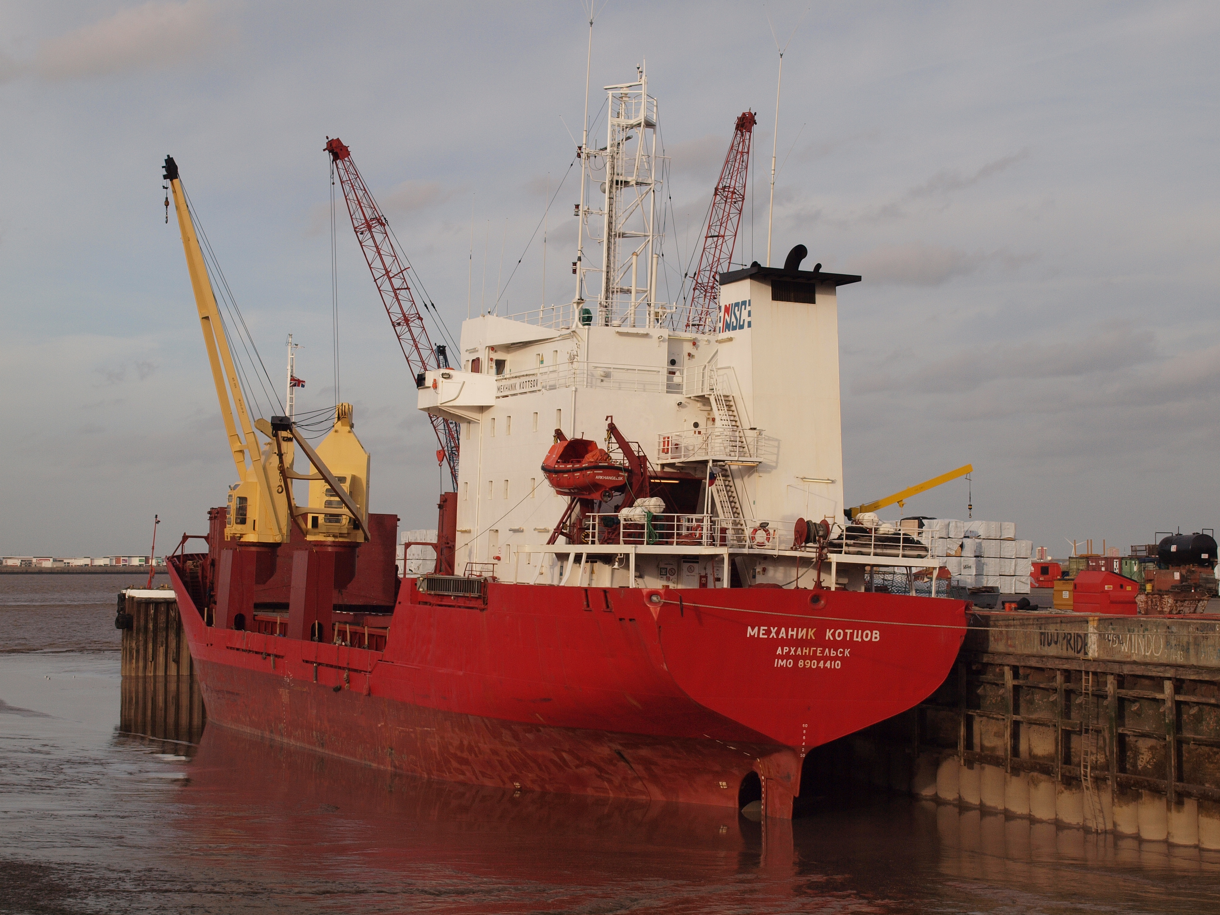 "Mekhanik Kottsov" IMO 8904410, Russian flag, 2650dwt, owned and managed by Northern Shipping Co., Arkhangelsk.